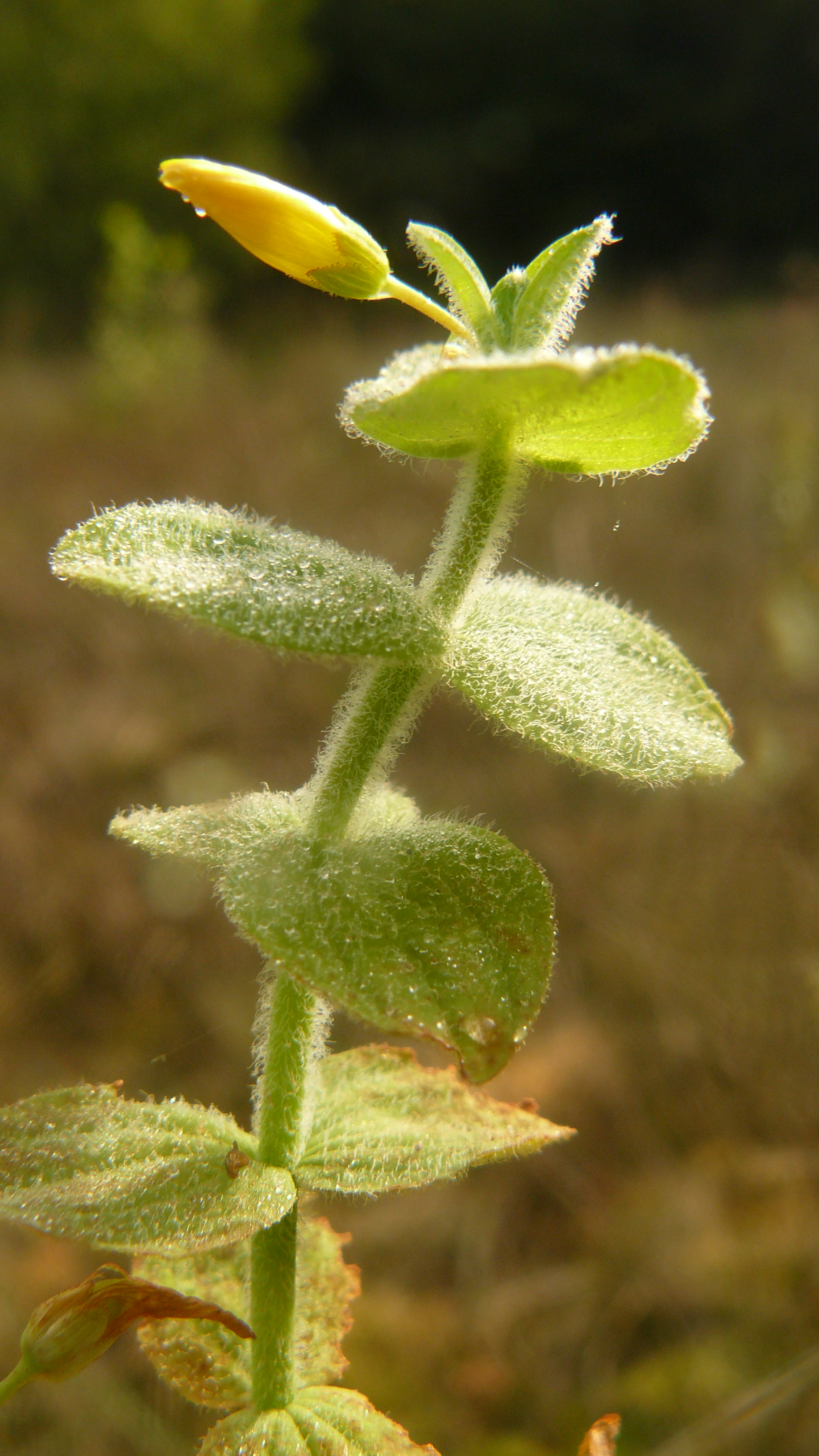 Hypericum elodes in a bog (Saône et Loire, 71) France